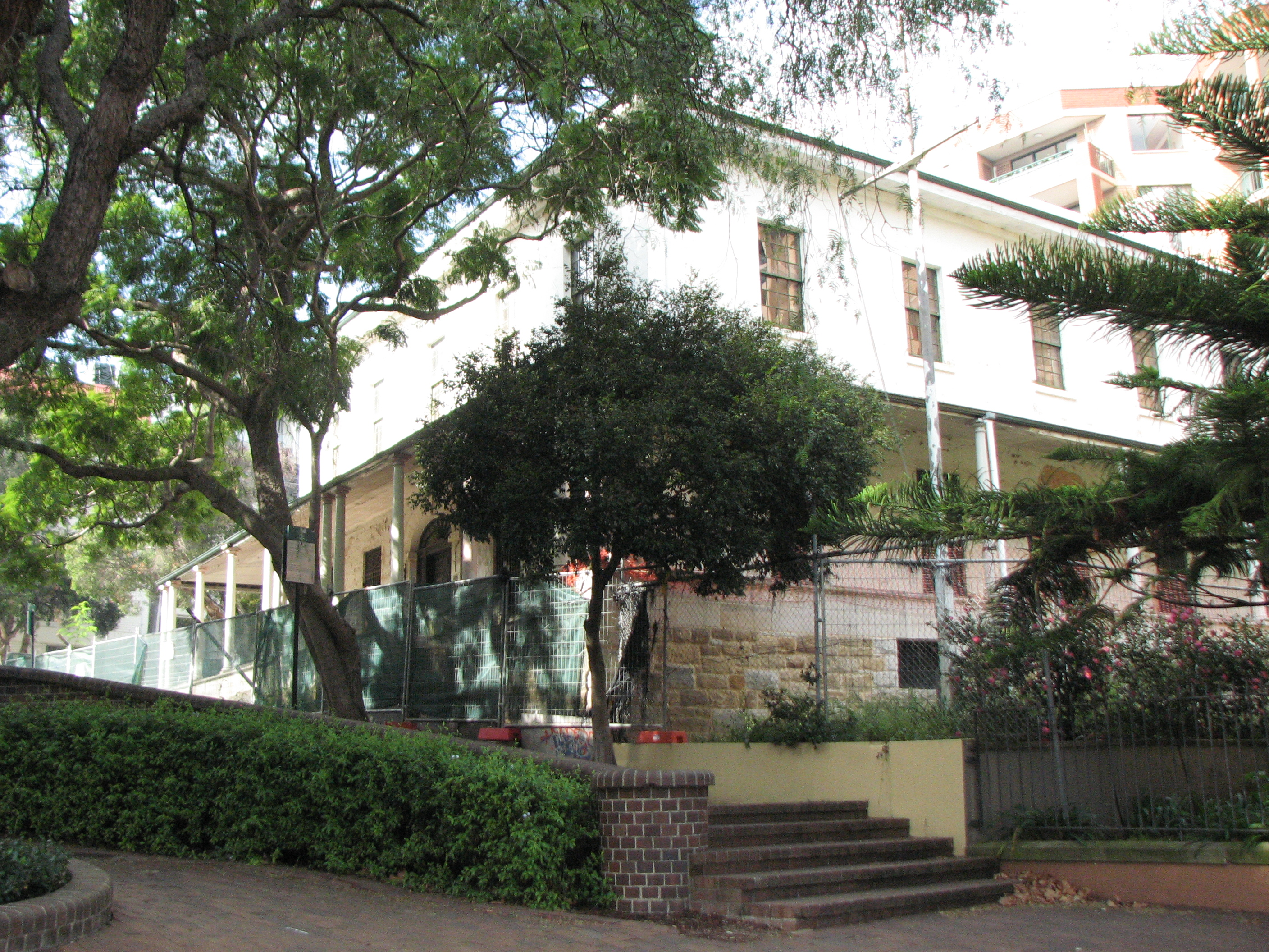 Cleveland House, 146-164 Chalmers Street is listed on the New South Wales Heritage Register. This photo was taken from Bedford Street